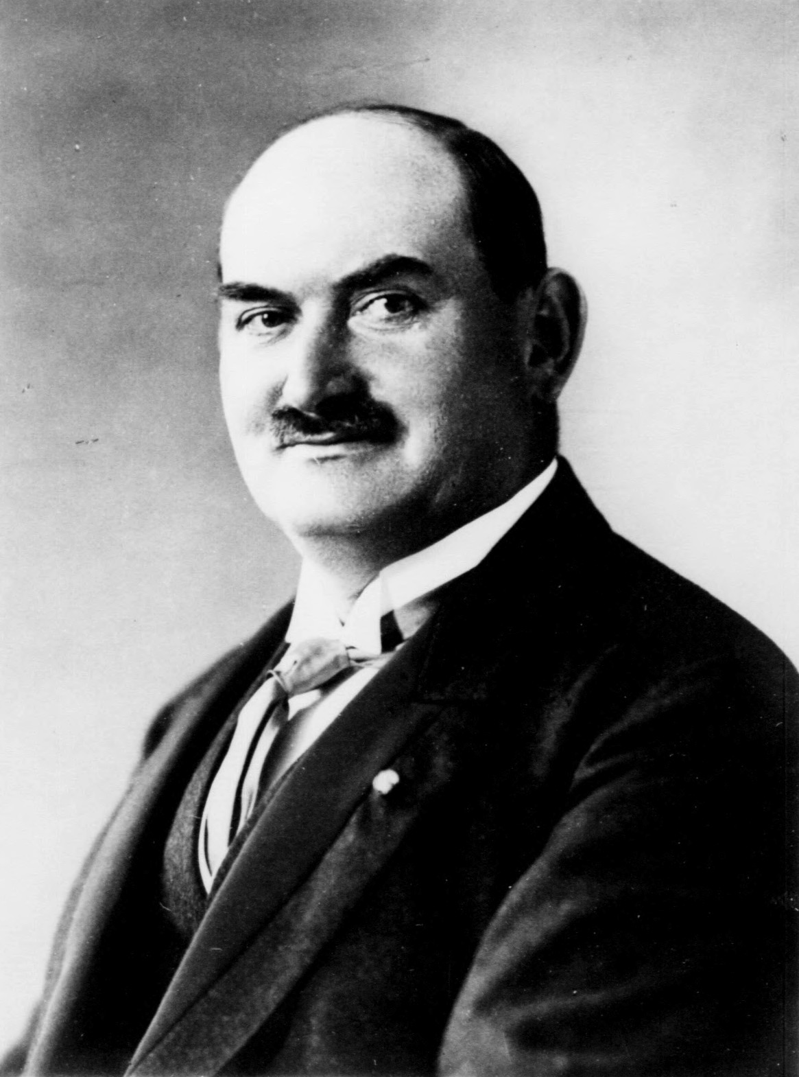 Portrait photograph of Carl Leopold Netter